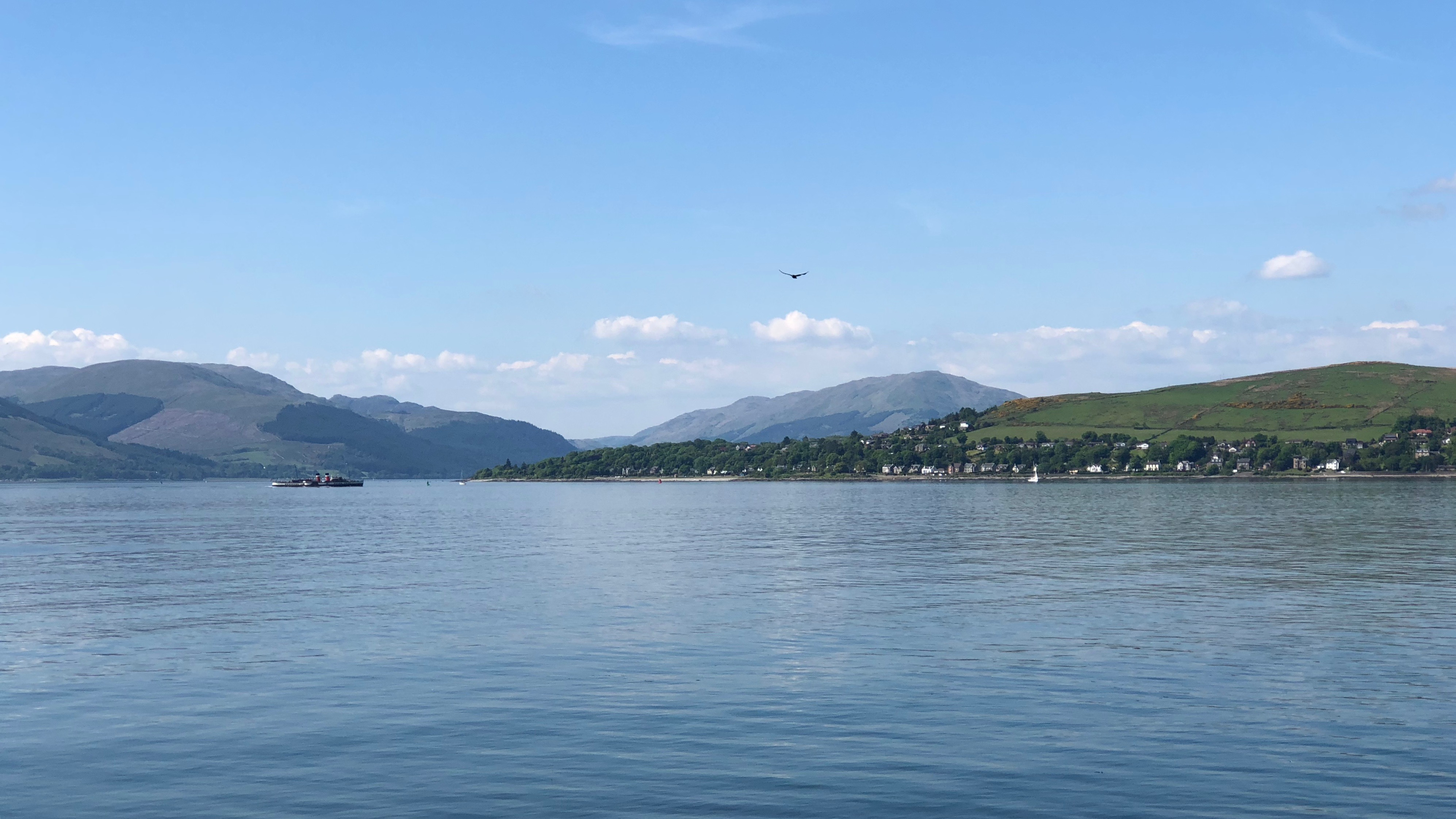 The Firth of Clyde at Kilcreggan, with Waverley passing Loch Long